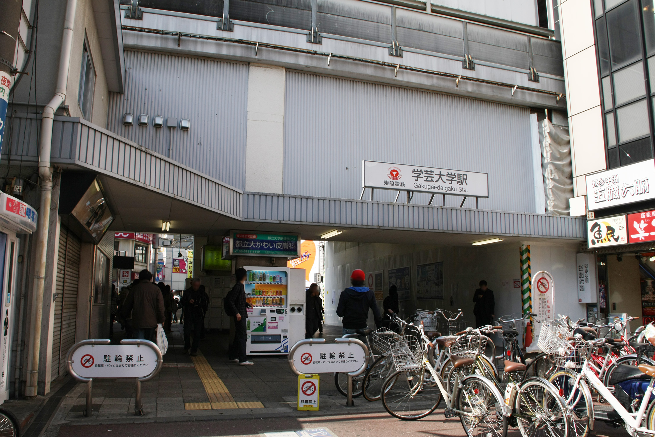 Gakugei-daigaku Station East Entrance